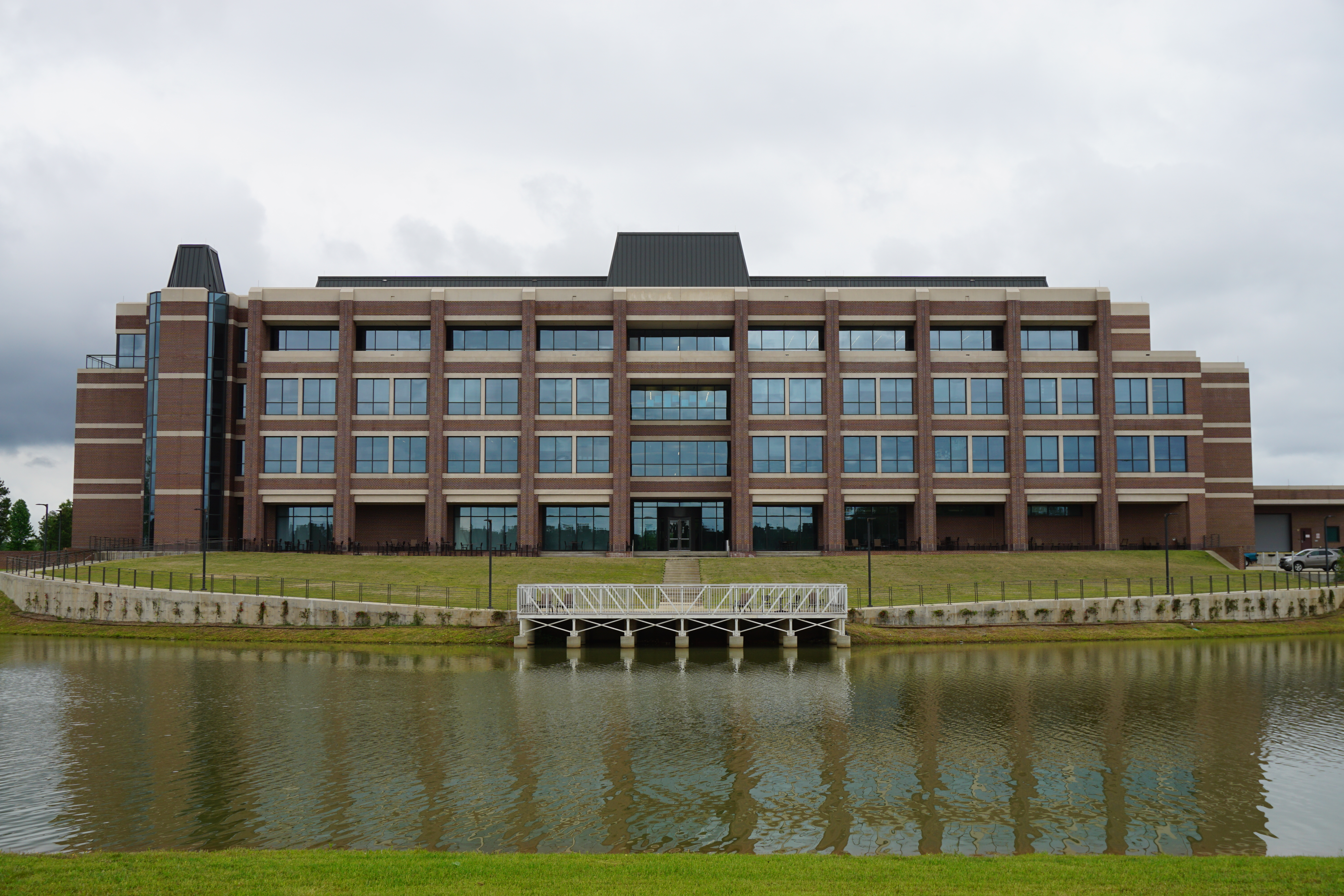 Bringle Lake and the University Center on the campus of Texas A&M University–Texarkana in Texarkana, Texas (United States).